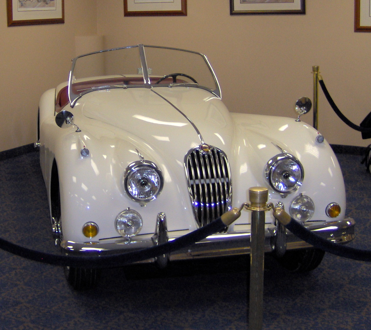 1955 Jaguar XK140 Roadster